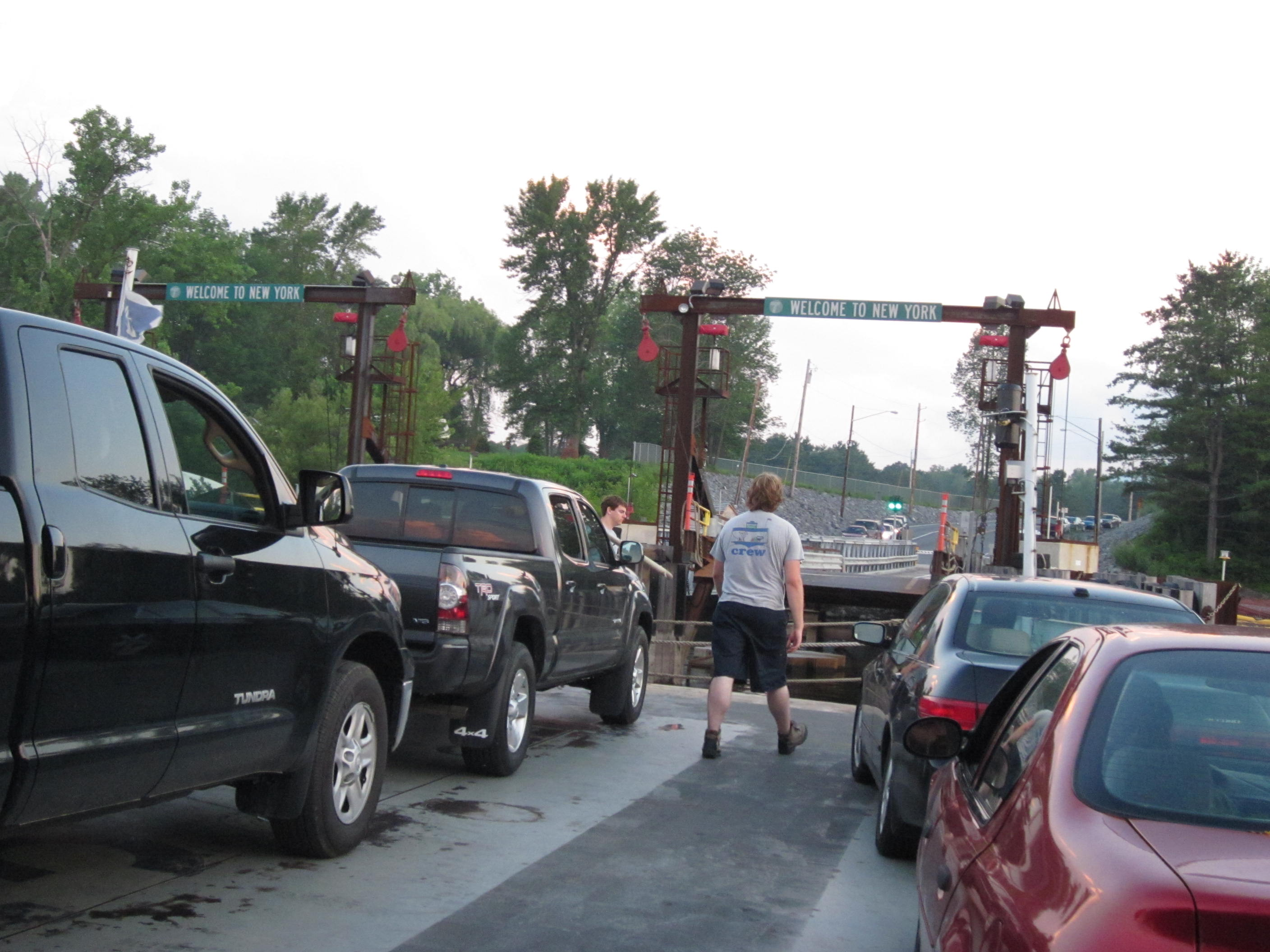 New York State Route 185 at the temporary ferry landing instituted during reconstruction of the Champlain Bridge.